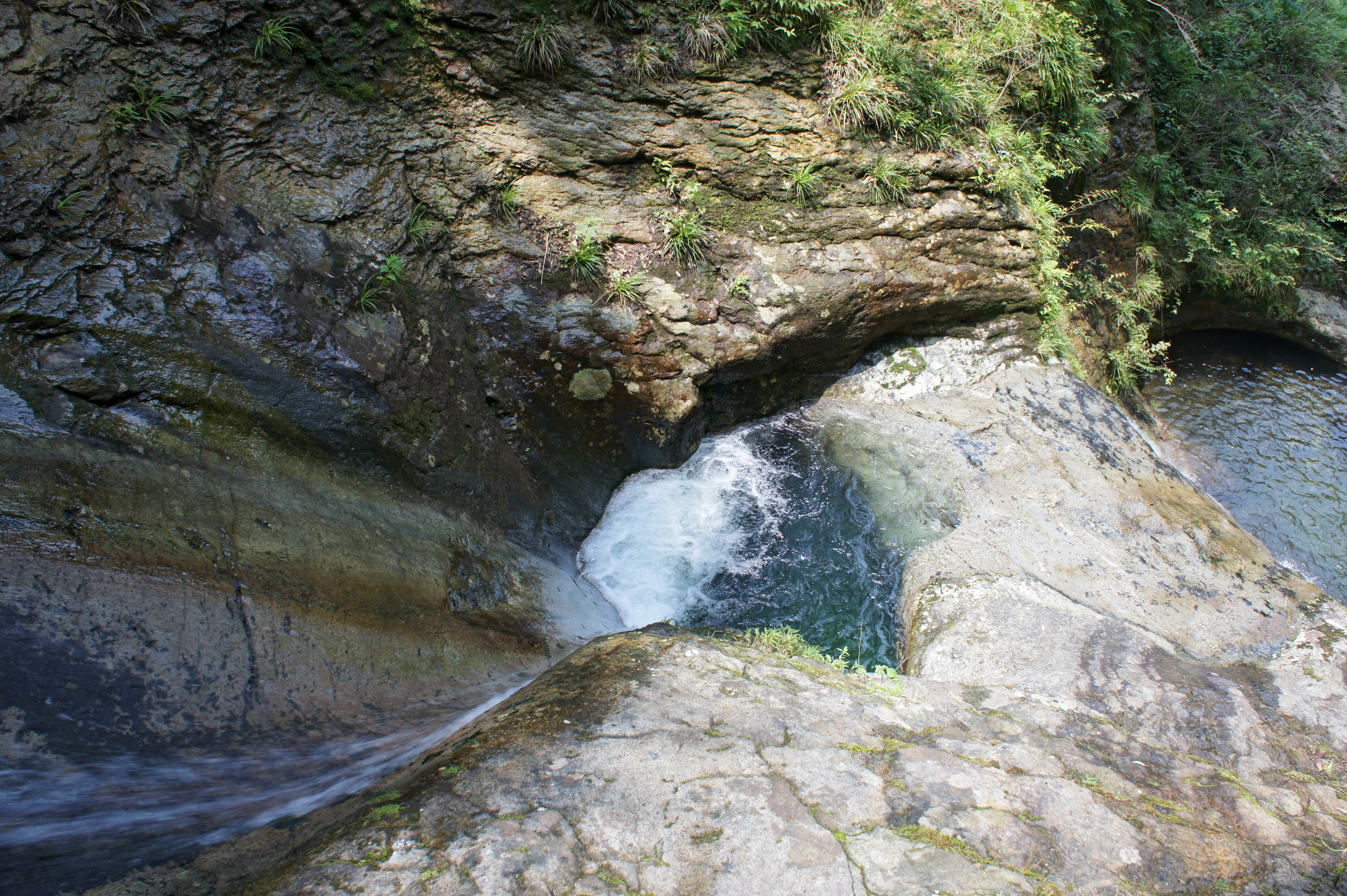 Sokonashi of Shikagatsubo in Himeji, Hyogo prefecture, Japan.